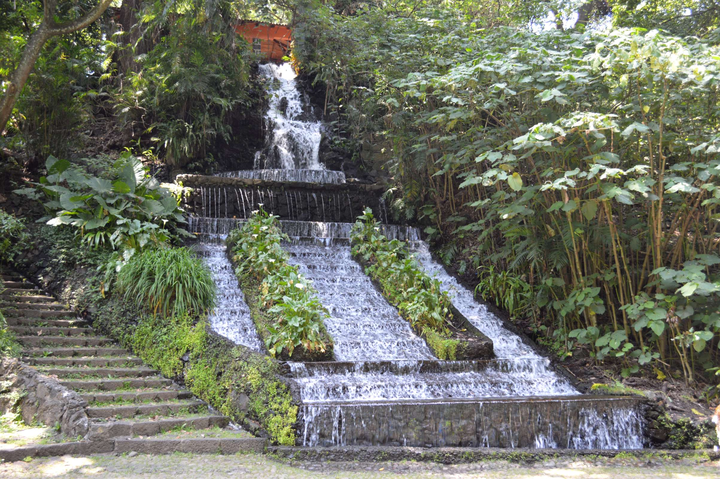 Uriata natural fountain in the Barranca de Cupatitzio National Park in Uruapan, Michoacan, Mexico